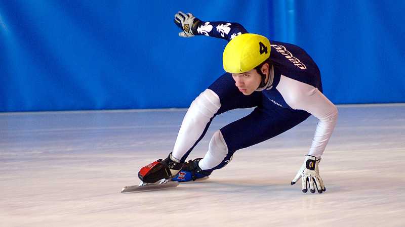 Jean-Charles Matteï, french short-track skater